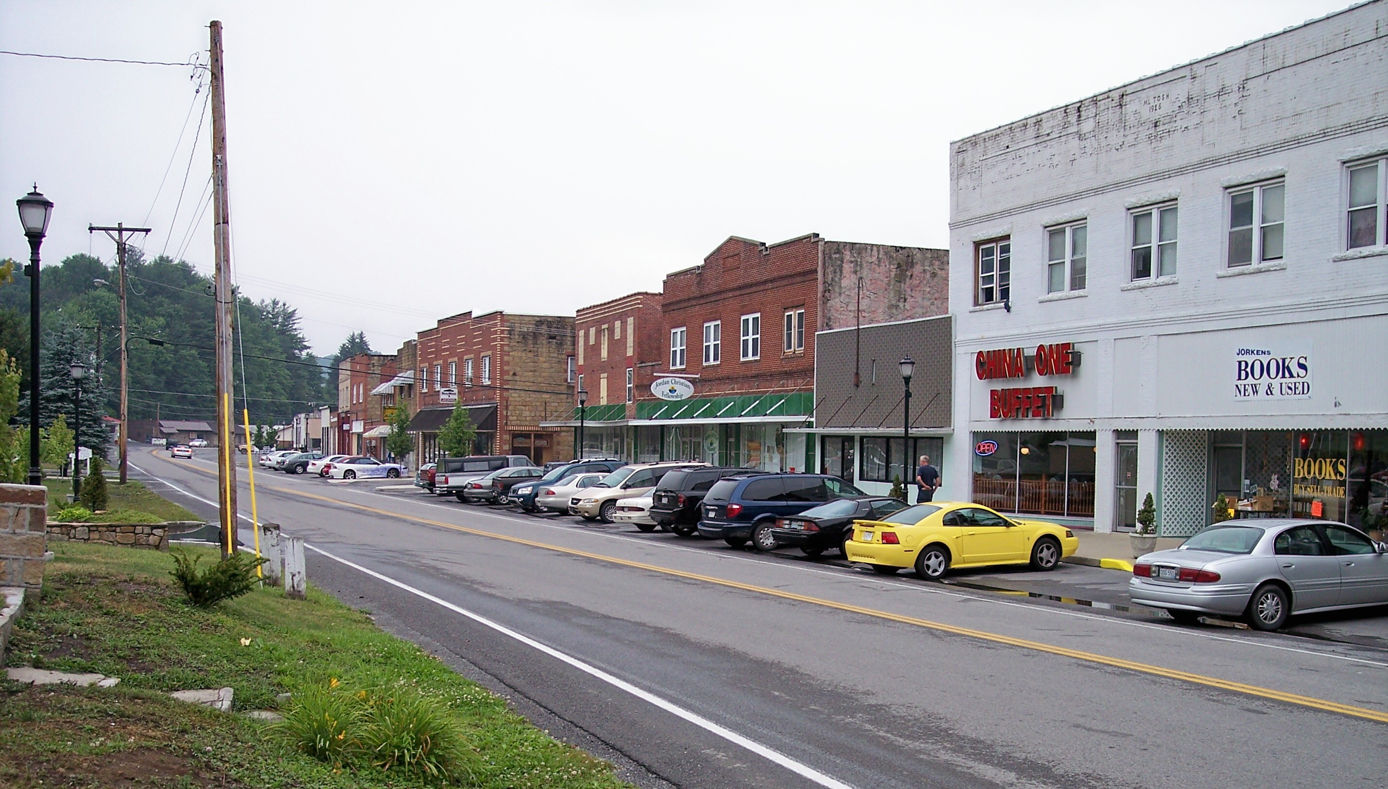 Main Street (West Virginia Route 16) in Sophia, West Virginia.